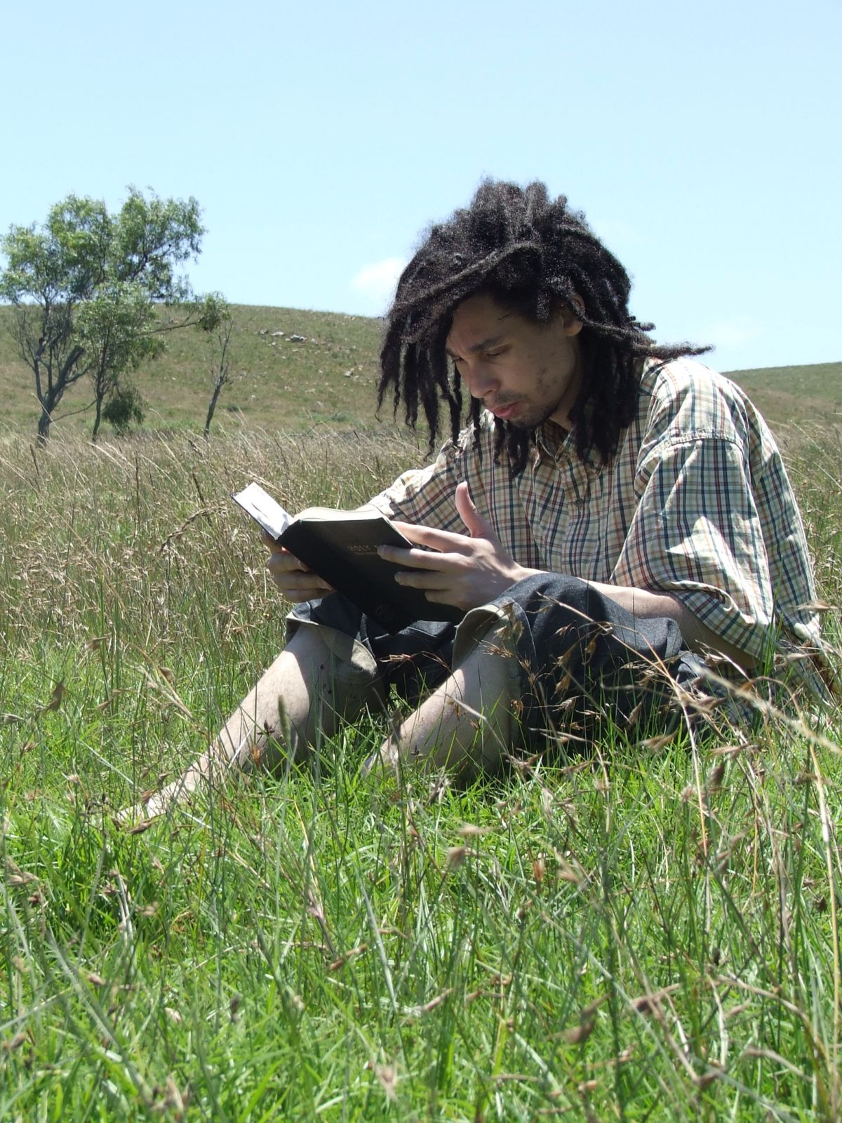 Reading the Bible.